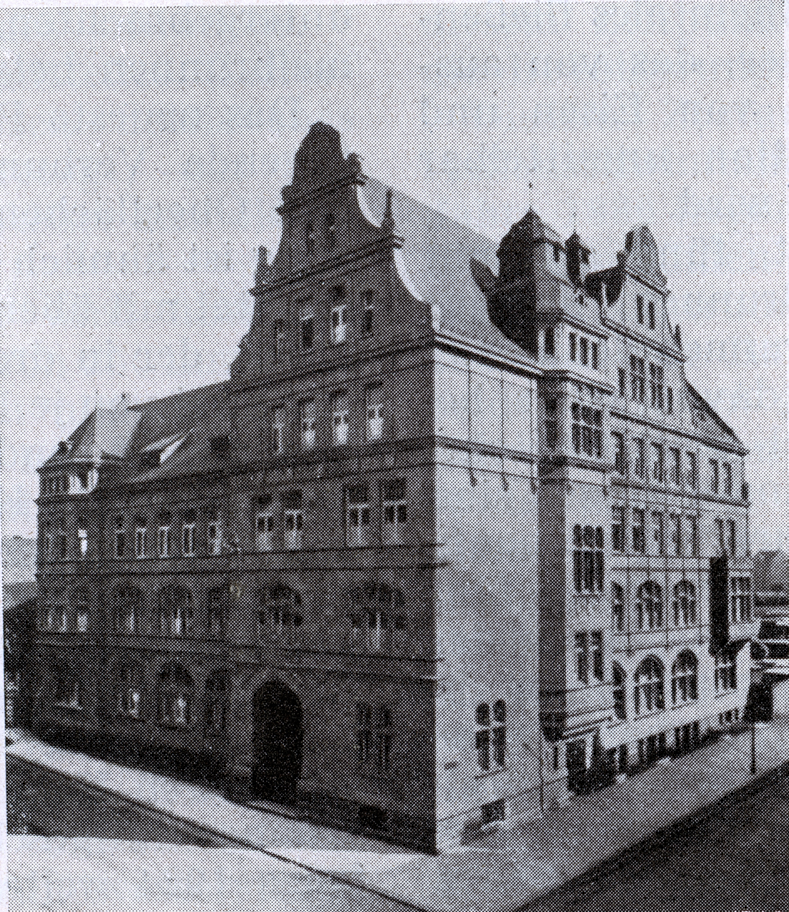 t